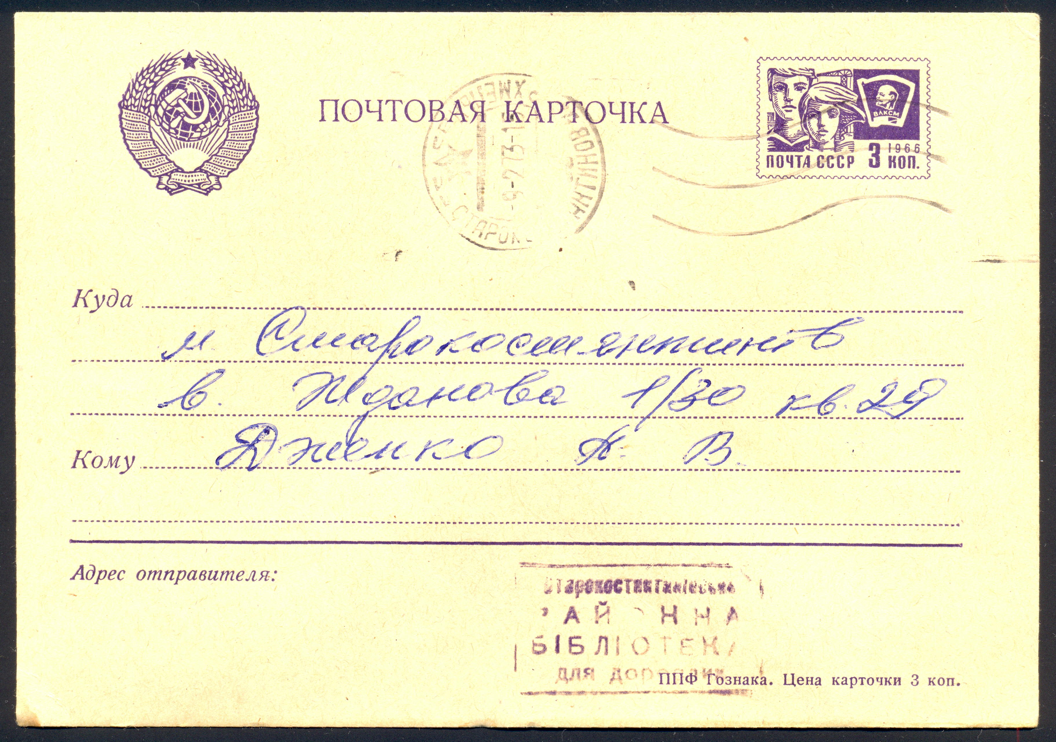 USSR 1970, 3 kopek postal card, grey violet on light brown ocher. Reversed sequence: 'ПОЧТОВАЯ КАРТОЧКА' instead of 'КАРТОЧКА ПОЧТОВАЯ'.